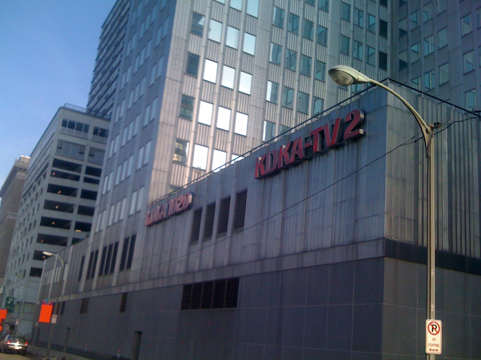 Image of KDKA's studios in Pittsburgh. Took image myself.